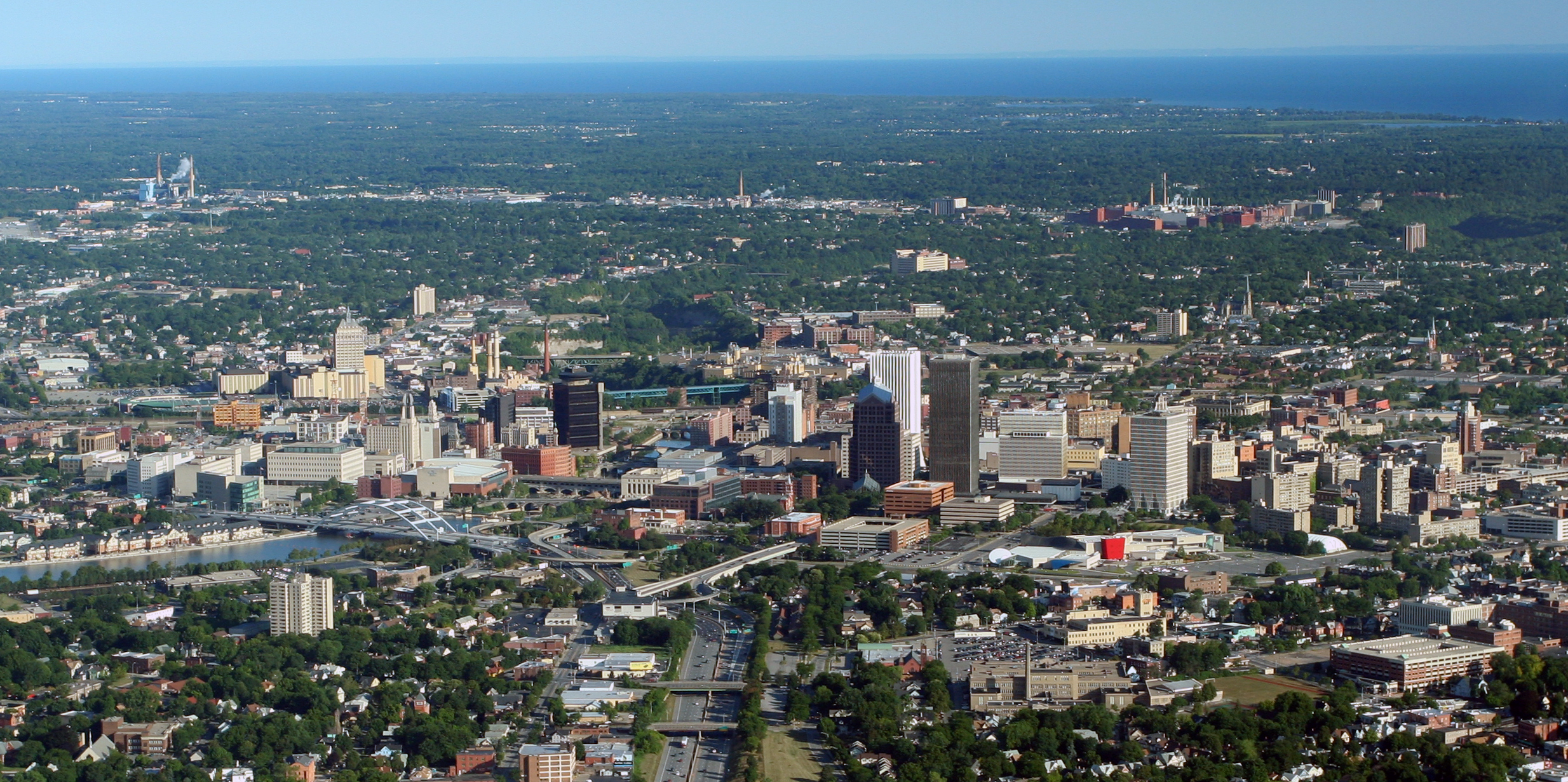 An aerial image of the city of Rochester, New York.